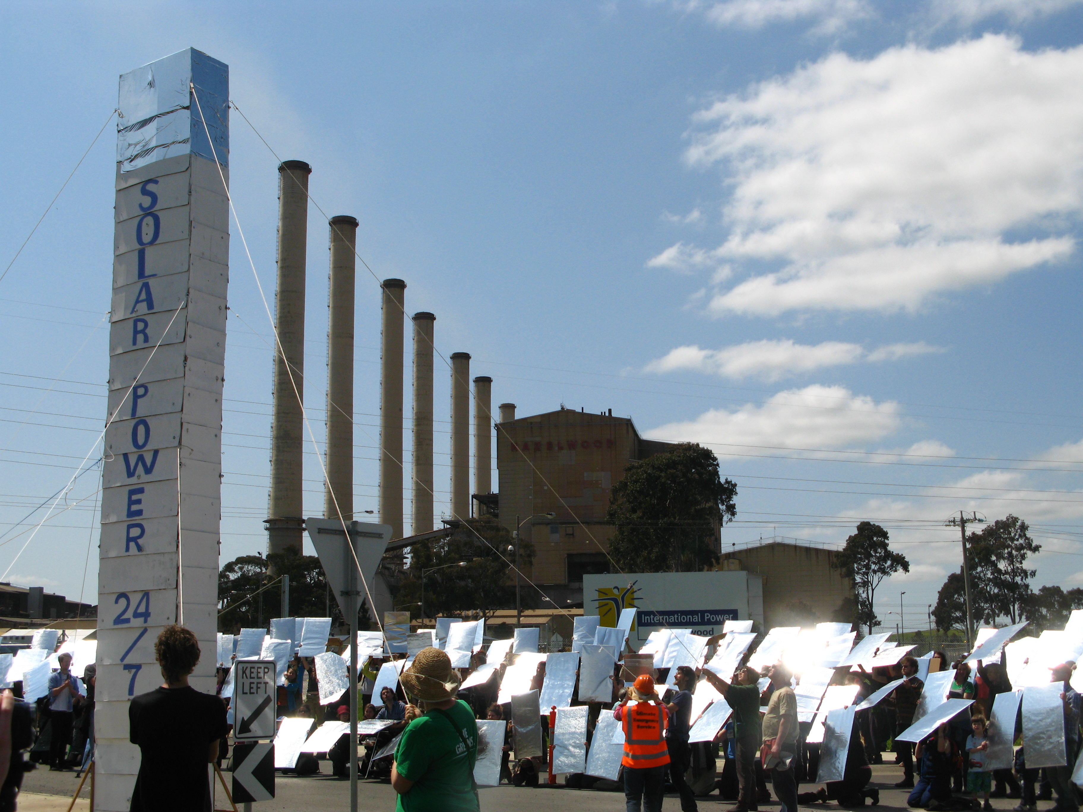 A human-made Solar Thermal mock power plant next to the Hazelwood coal-fired Power Station, Victoria, Australia. Photo taken by myself October, 2010.